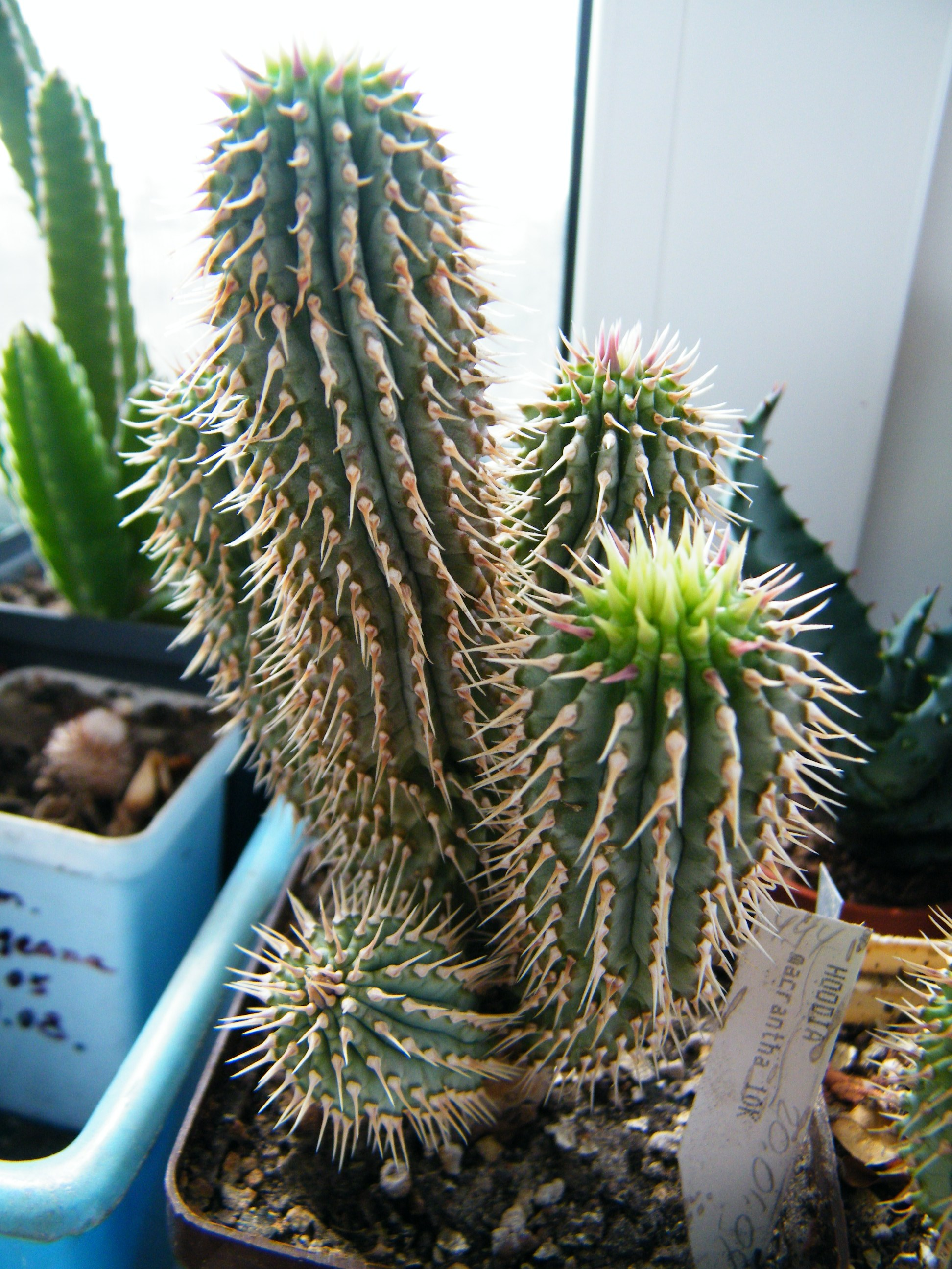 Hoodia macrantha